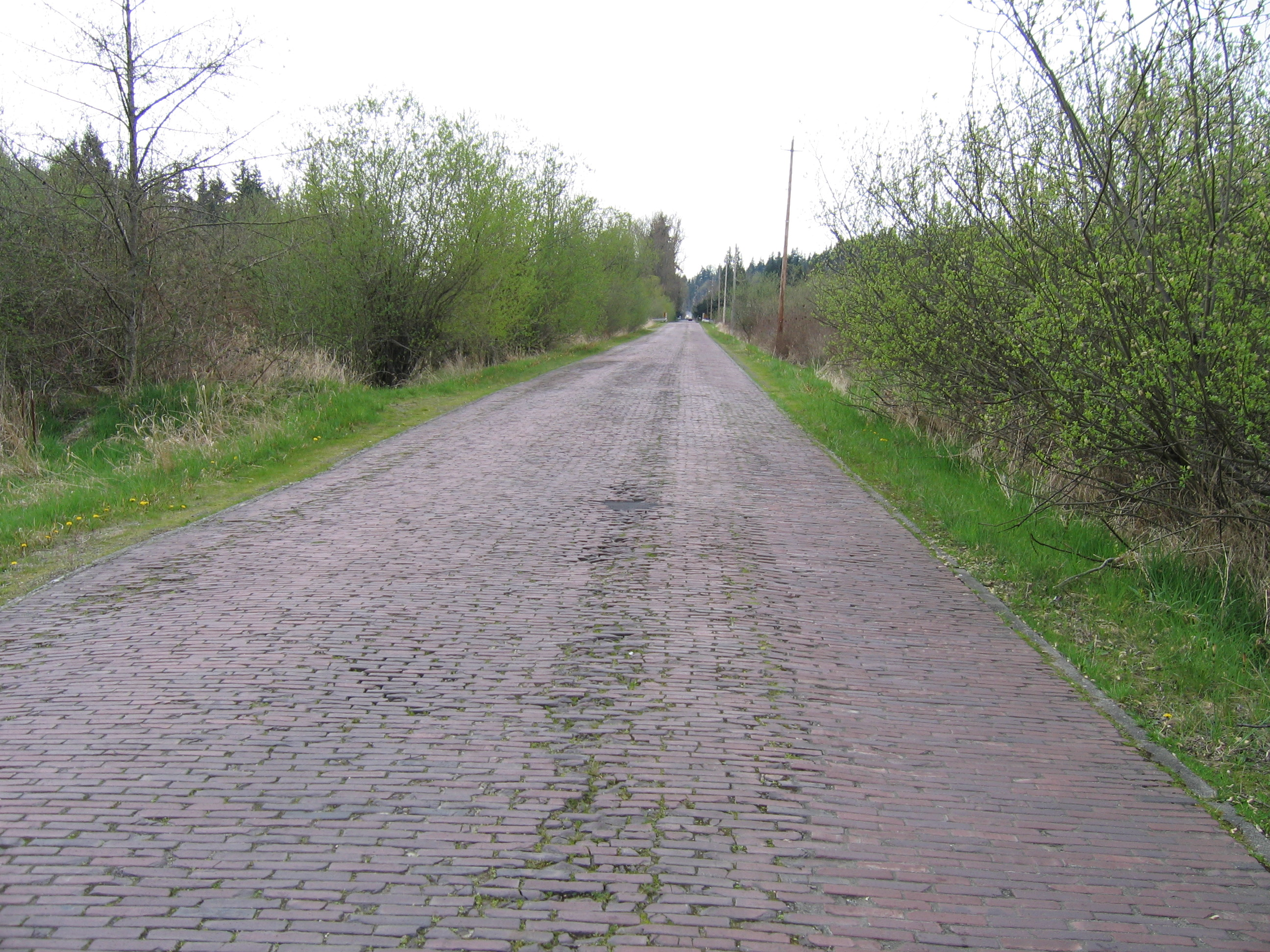 196th Avenue Northeast in Redmond, Washington, the longest remaining red brick stretch of the Yellowstone Trail in King County. Paved with brick in 1913.